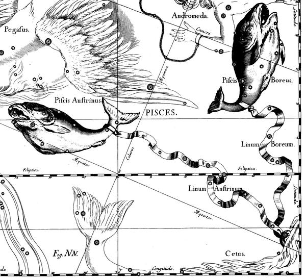 The Pisces constellation from Uranographia by Johannes Hevelius. The view is mirrored following the tradition of celestial globes, showing the celestial sphere in a view from "ouside"